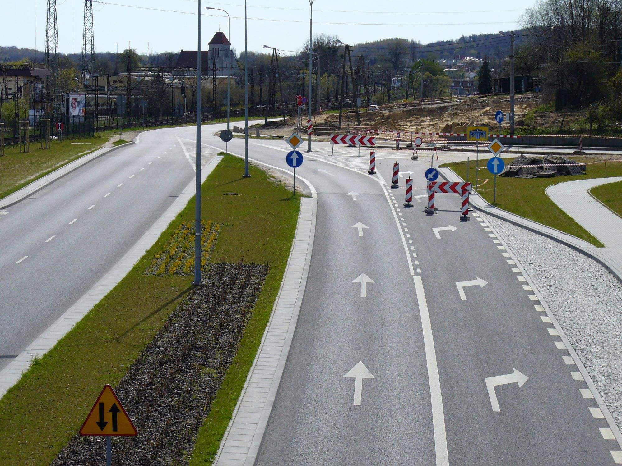 Poland, Gdynia, Droga różowa